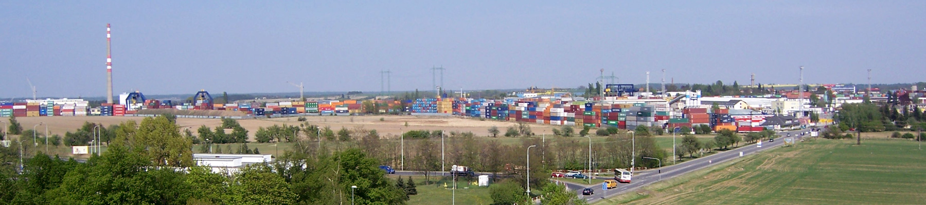 Prague, Uhříněves, container terminal METRANS